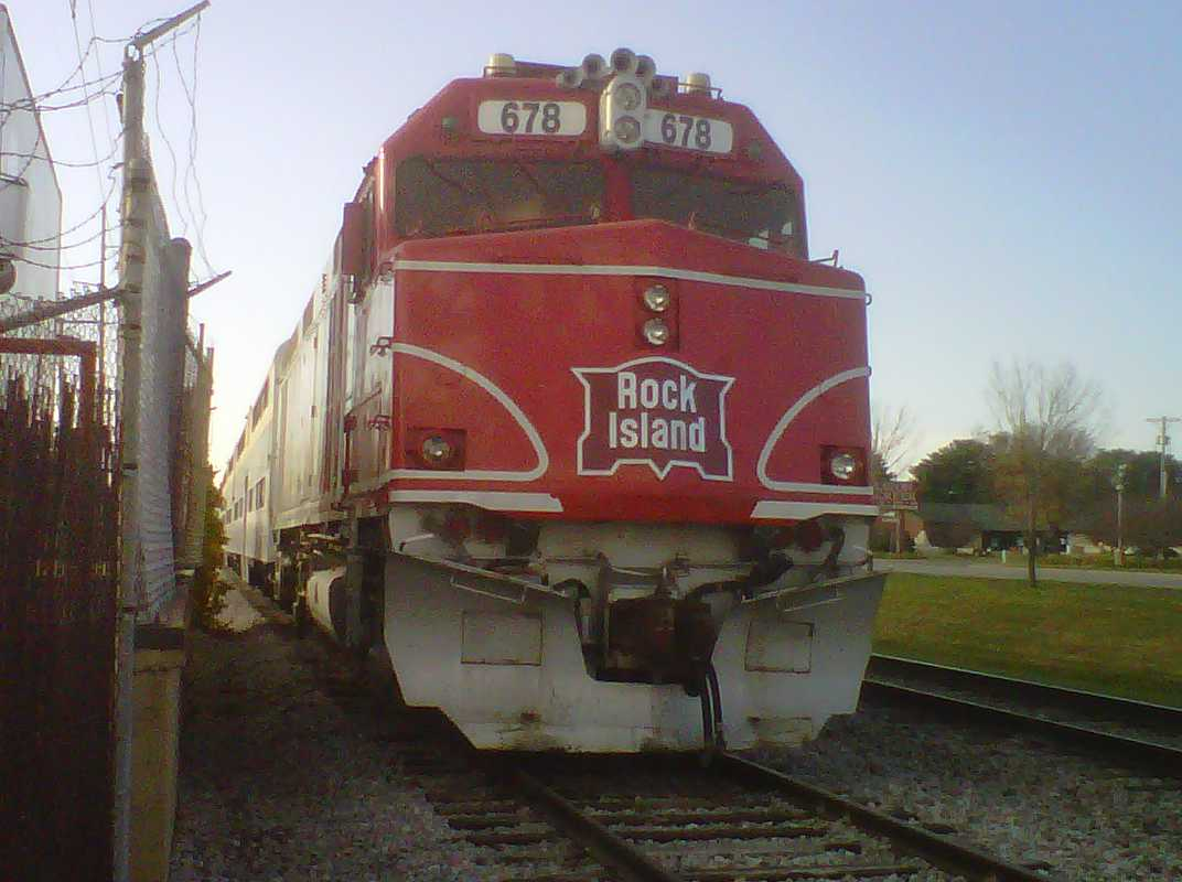 Iowa Northern Railway (IANR) engine 678 painted in Rock Island Railroad livery. Coralville, Iowa